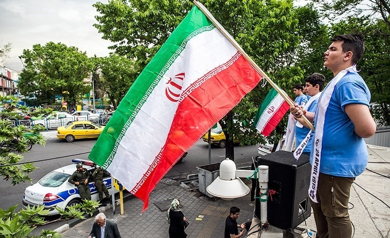 Armenian Genocide Remembrance Day in Saint Sarkis Cathedral, Tehran